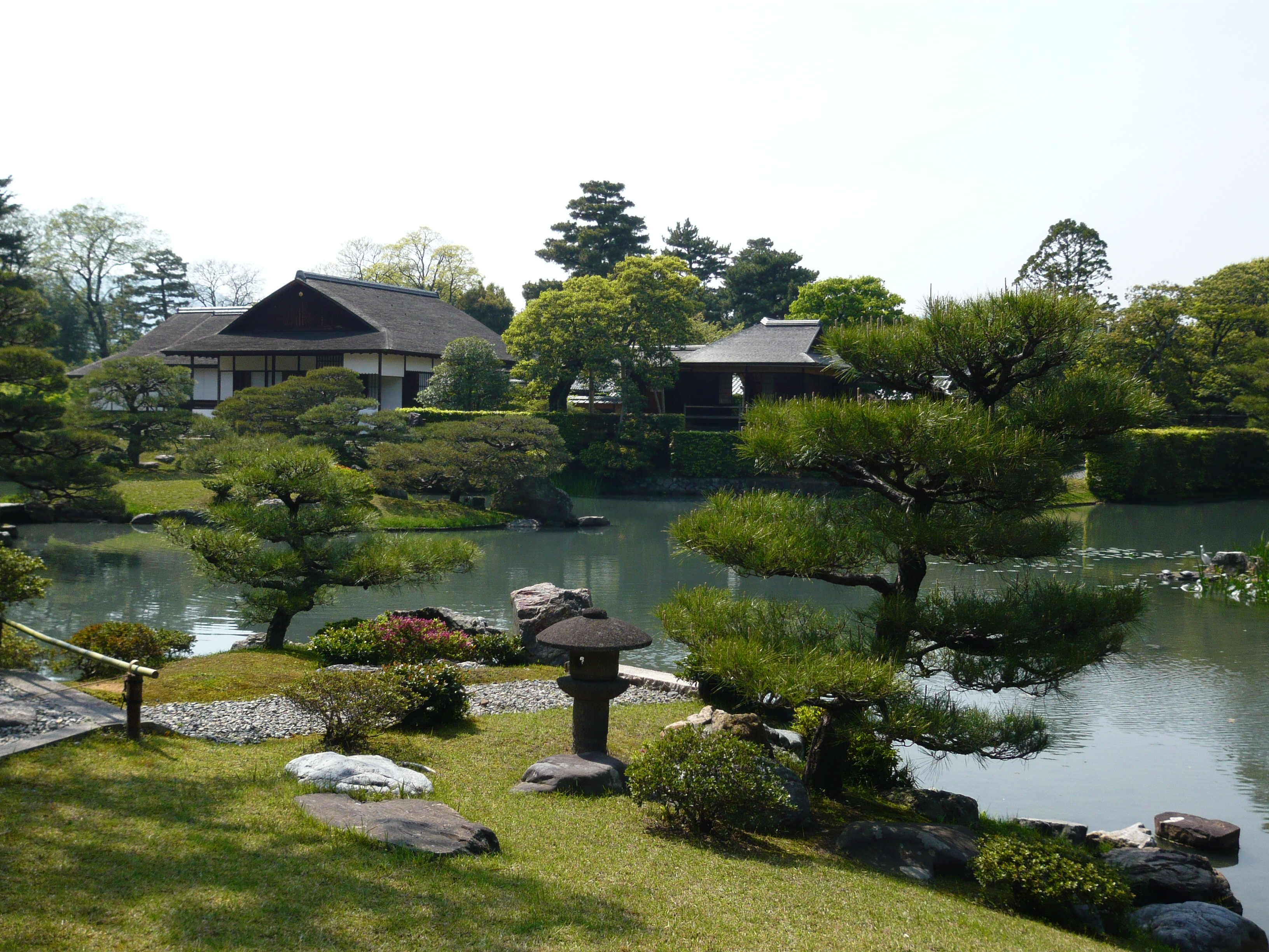 Katsura Imperial Villa in Spring